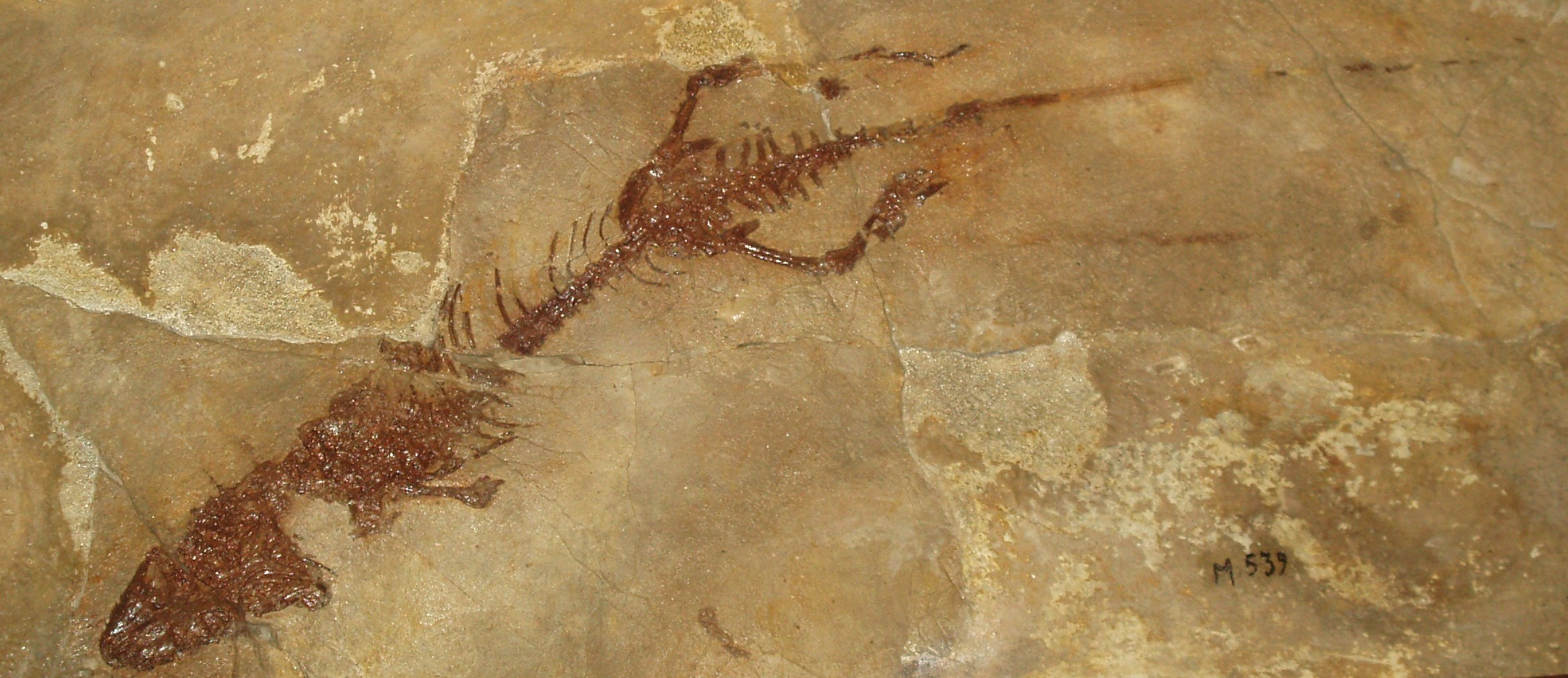 Fossil of Chometokadmon fitzingeri, a fossil lizard